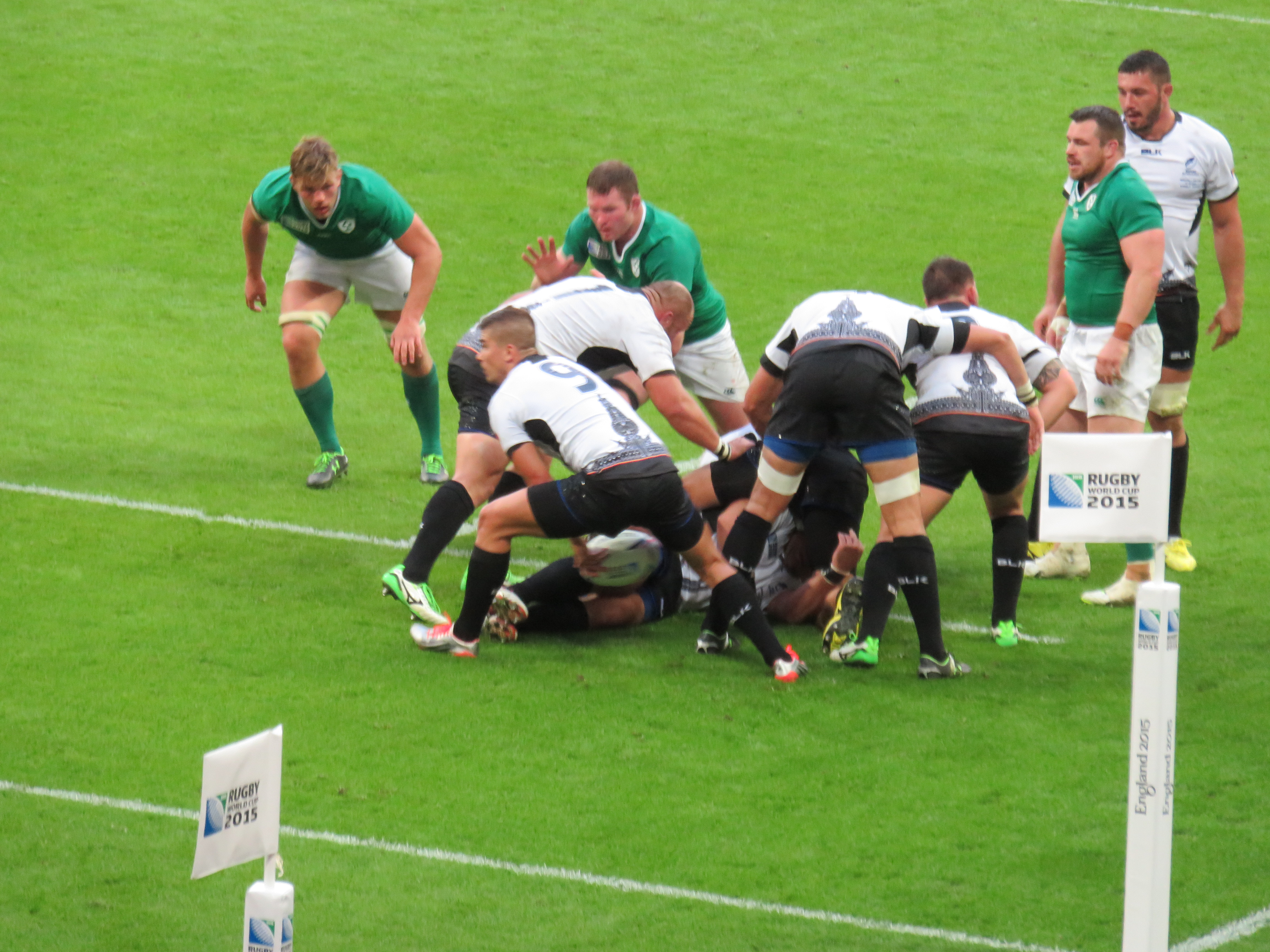 2015 Rugby World Cup game Ireland vs Romania at Wembley Stadium, London.